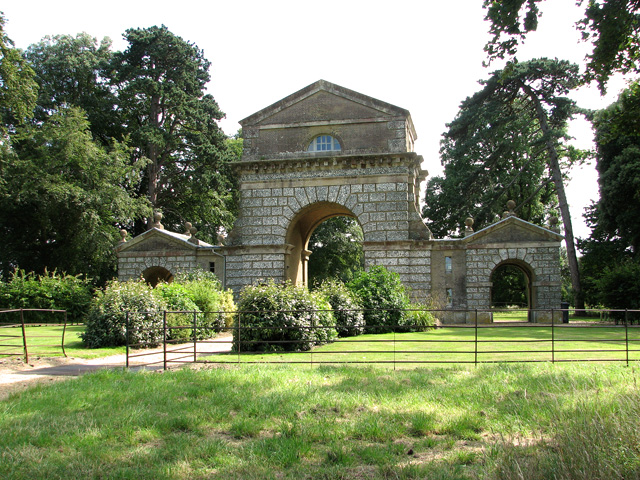 Triumphal Arch, Holkham Park